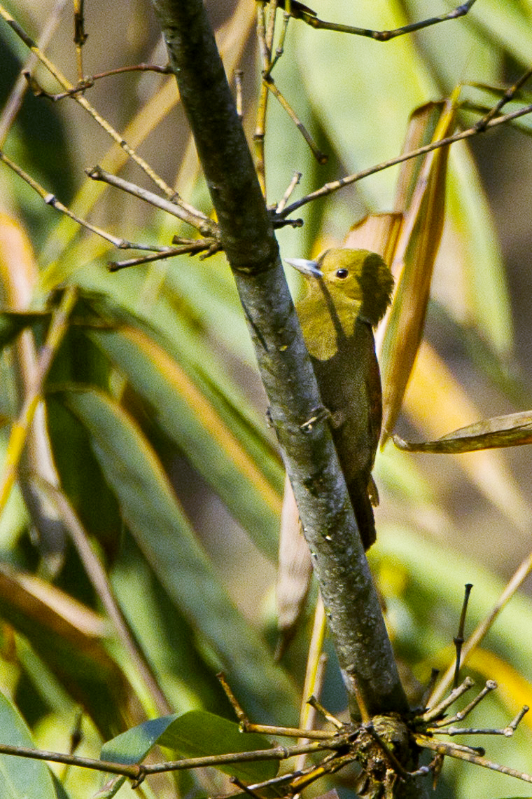 Pale-headed Woodpecker - Bhutan_S4E1130